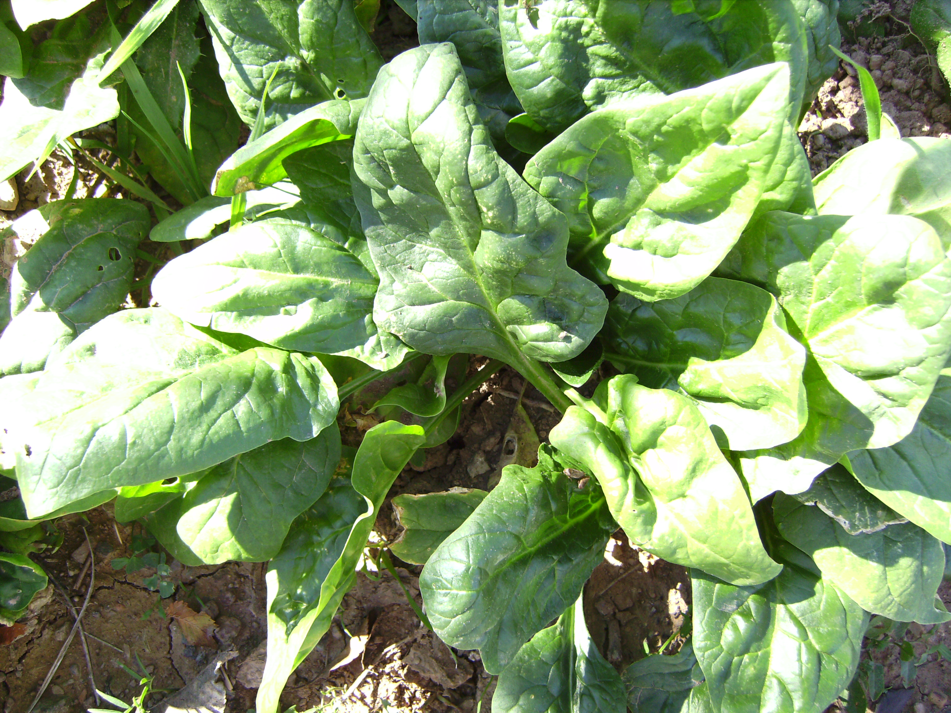 Spinach plant, Castelltallat, Catalonia